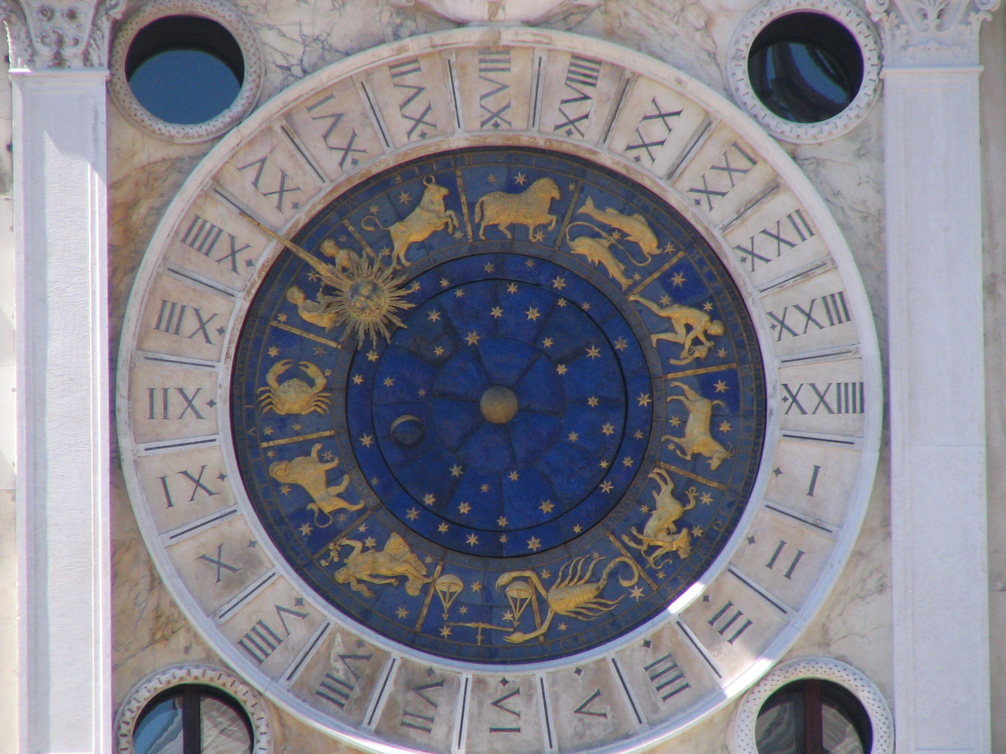 The astronomical clock of the Piazza San Marco, Venice